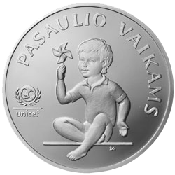 5 litas coin, issued as an item of the United Nations Children's Fund (UNICEF) coin program "Children of the World" Silver Ag 925 Quality proof Diameter 38.61 mm Weight 28.28 g The words on the edge of the coin: LIETUVOS BANKAS*LIETUVOS BANKAS The designer of the coin is Antanas Zukauskas Issued 1998 Minted 3,000 pcs Distribution terminated 2003 Distributed 3,000 pcs The coin was minted at the state enterprise Lithuanian Mint.